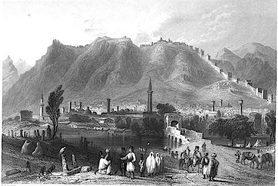 Engraved plate